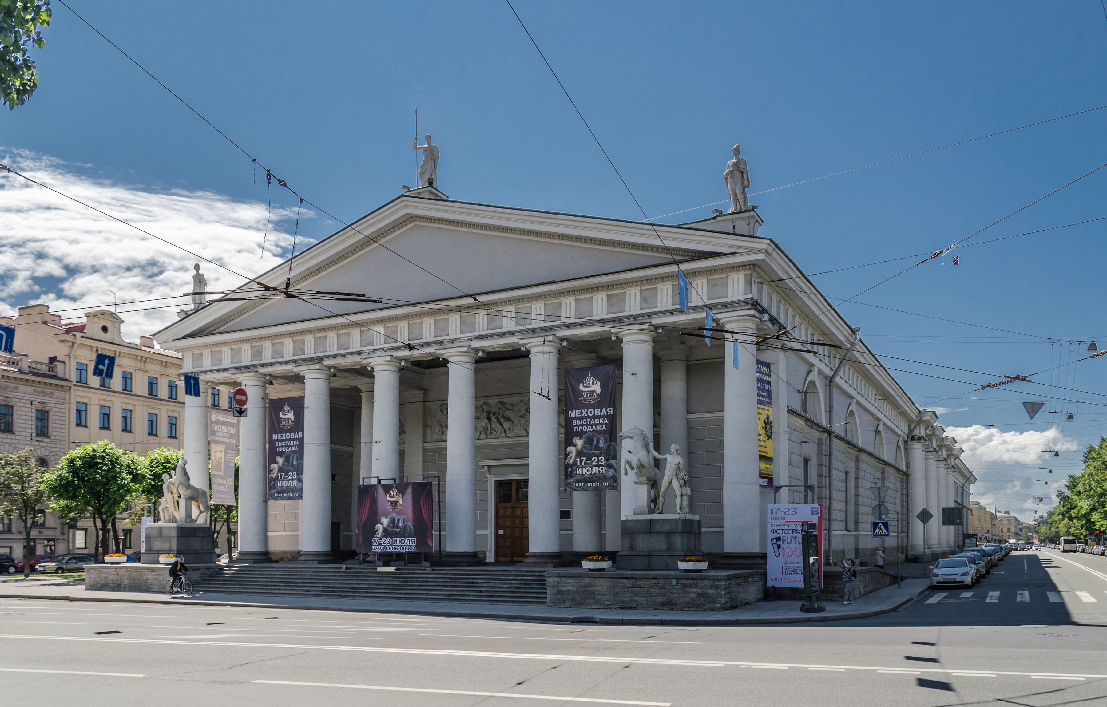 Konnogvardeysky manege in Saint Petersburg